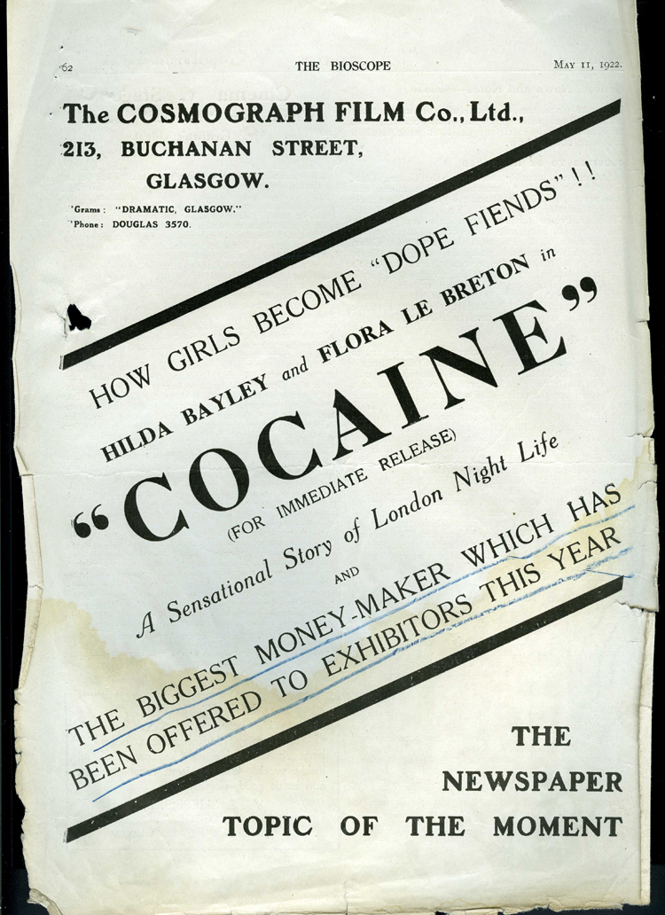 Description: Trade advert in The Bioscope to encourage cinema owners to book the film 'Cocaine' directed by Graham Cutts. The Home Office conducted an aggressive campaign to attempt to ensure the film was not widely screened. Date: May 1922 Our Catalogue Reference: HO 45/11599 This image is from the collections of The National Archives. Feel free to share it within the spirit of the Commons. For high quality reproductions of any item from our collection please contact our image library.